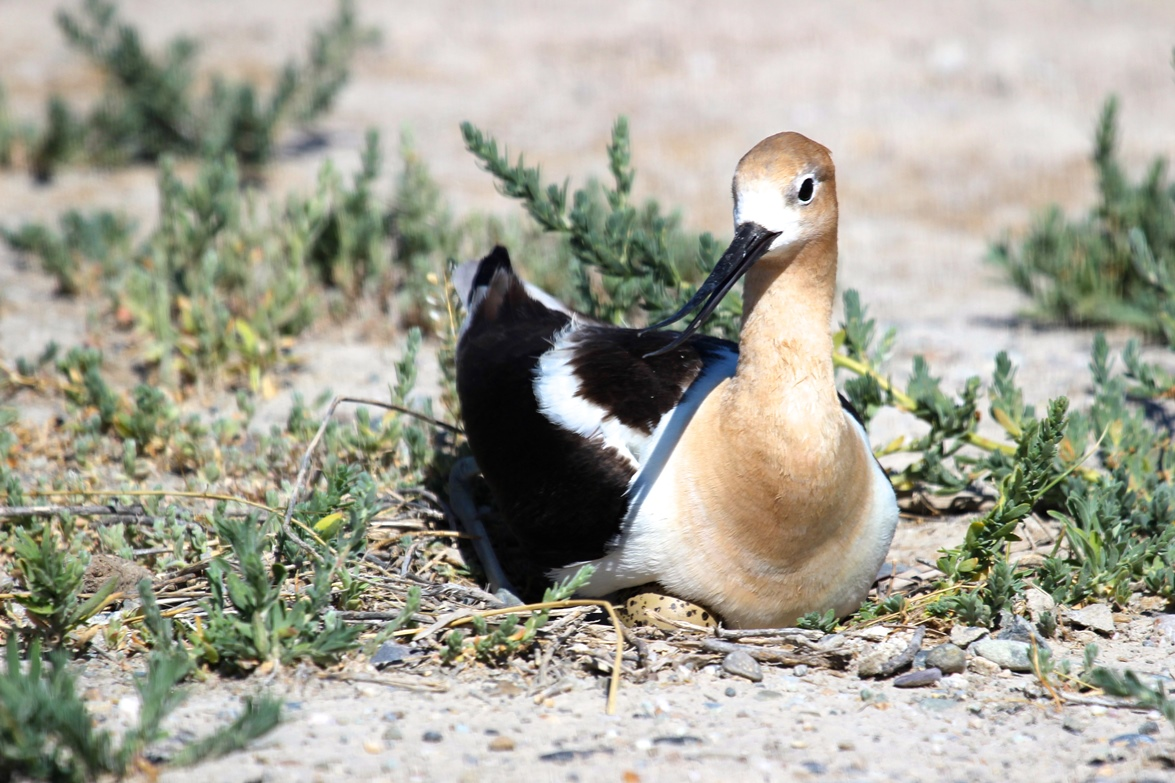 American Avocet sitting on nest with one of the eggs visible underneath the parent's body. Third place winner in Bird Life Bear River Refuge Photo Contest 2014. Photo credit: Trina Thomson / USFWS